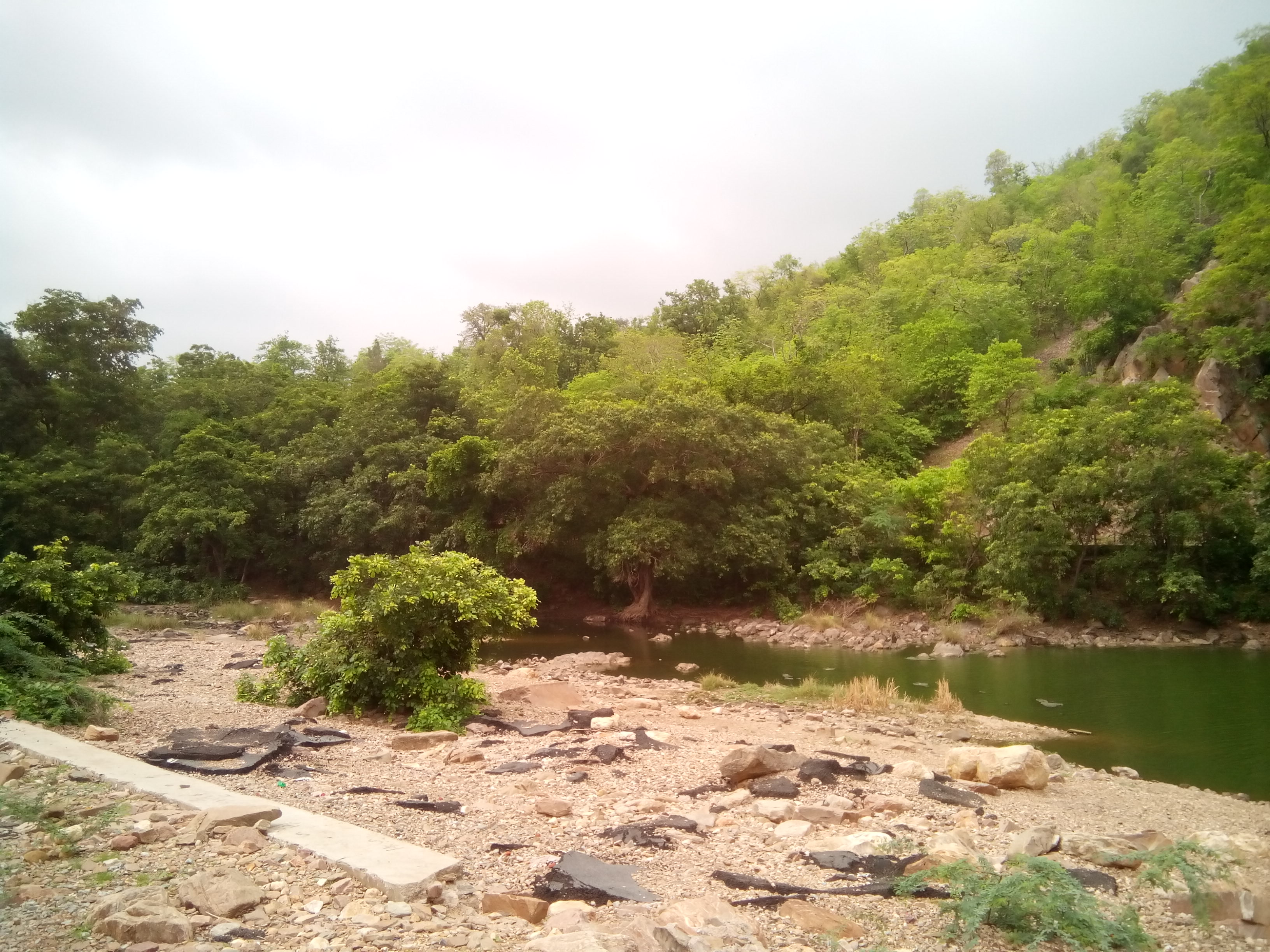 ગુજરાતી: Nature at Polo Forest